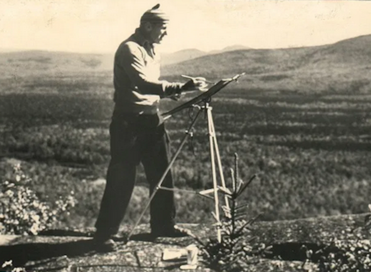 Maurice "Jake" Day painting view of Russell Pond from "The Lookout" in the New England's last wilderness north of Mt. Katahdin (circa 1920s)